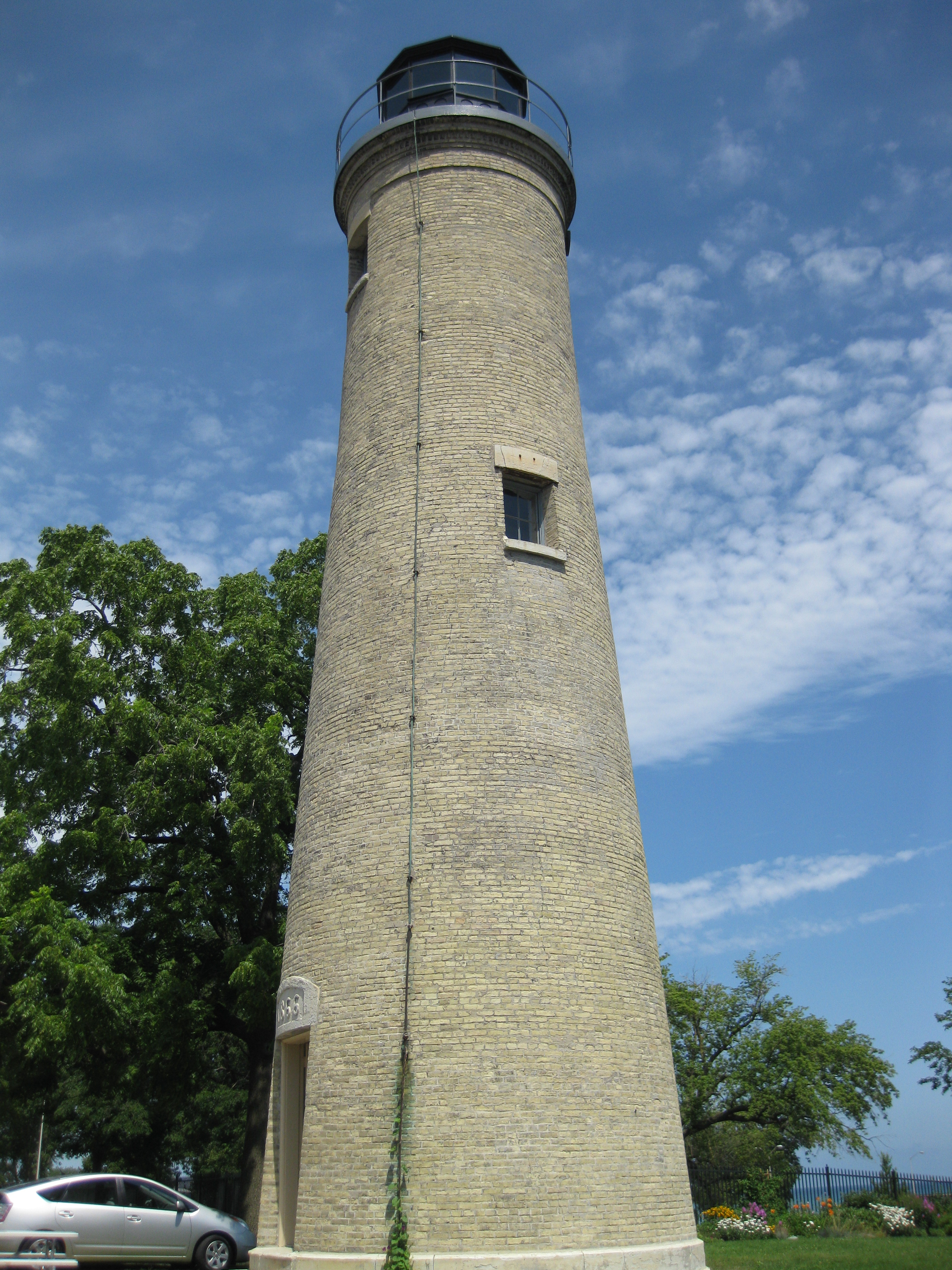 The Kenosha Southport Light in Kenosha, Wisconsin.